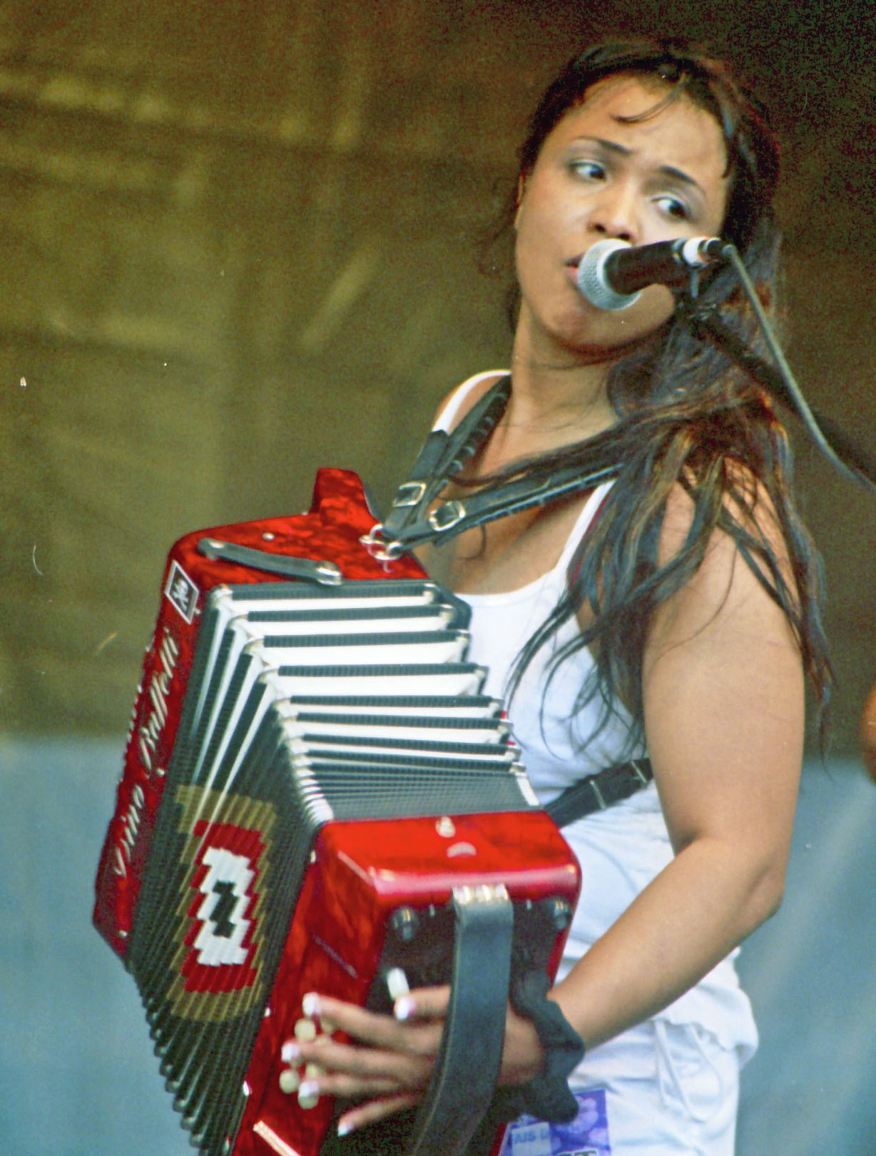 Rosie Ledet at the New Orleans Jazz & Heritage Festival (Fais Do-Do Stage)